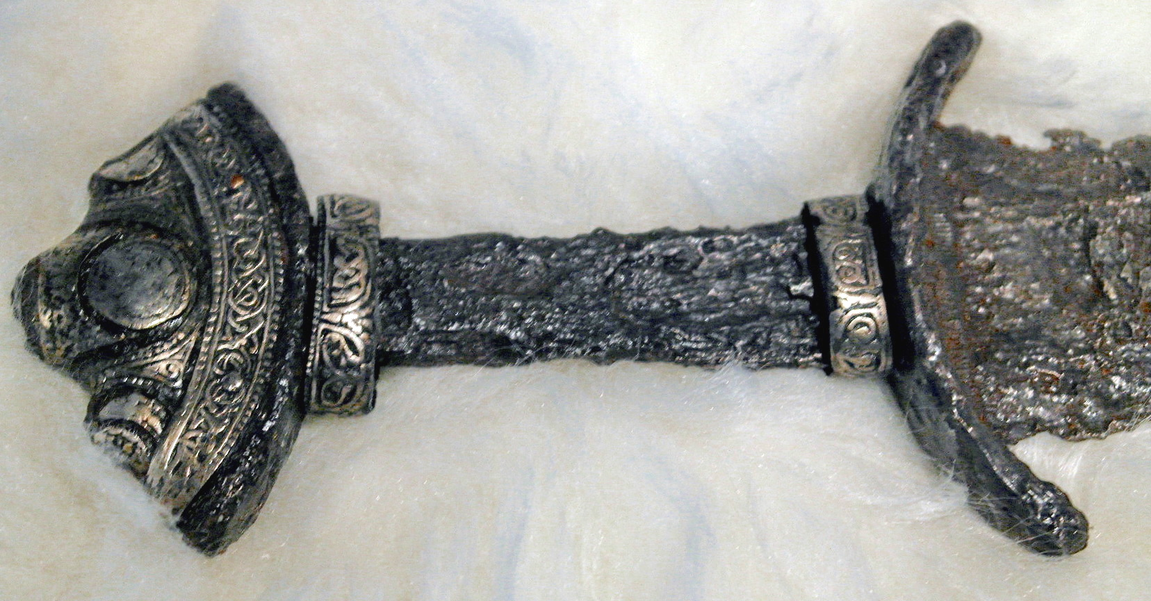 Viking sword hilt (850-950) from the river Meuse near Wessem, the Netherlands (found in a gravel depot in Aalburg). Archeological collection of Centre Céramique, Maastricht. Photographed in November 2014 at a Viking exhibition in Centre Céramique.